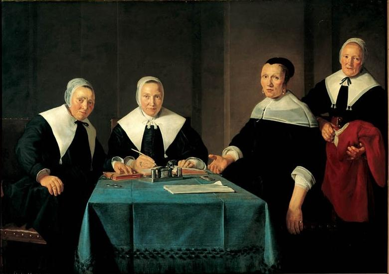 Regentesses of the "Leproos-, Pest- en Dolhuis" in Haarlem. This complex, dating from the 14th century, still exists and currently houses the Museum of Psychiatry "Het Dolhuys".